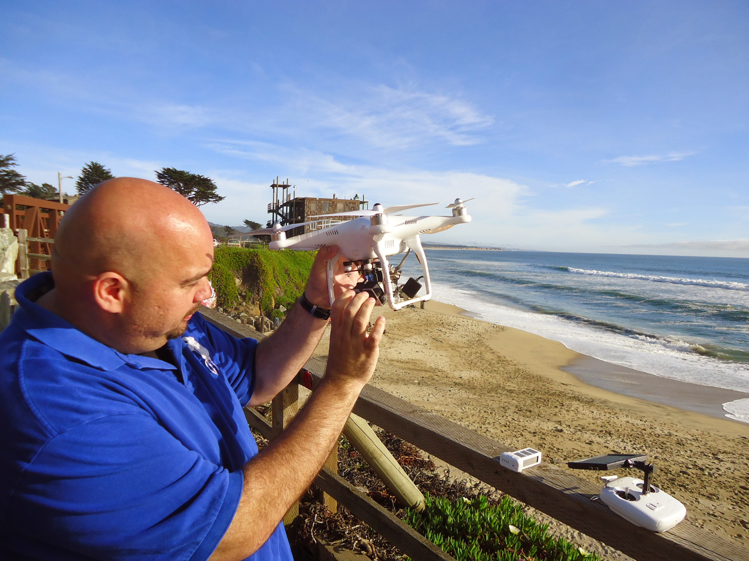 The operator preparing to fly a drone with his computer and control screen; after this photo was taken, he flew it over the Pacific Ocean, hovering about 50 feet above a surfer.